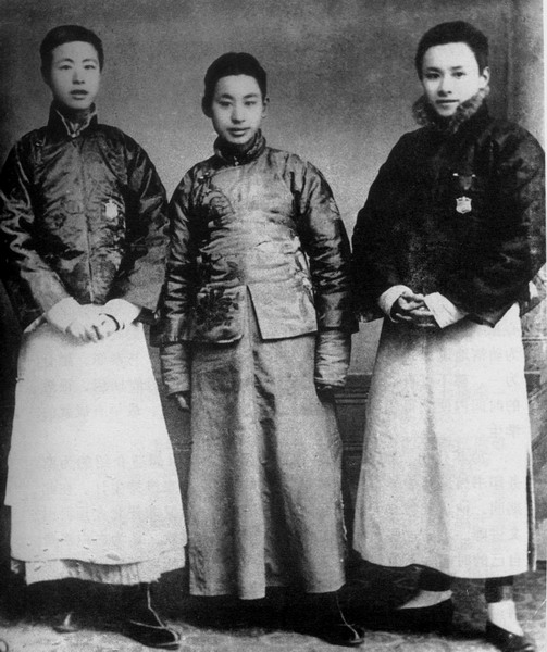 (from left to right) Gu Jiegang, Ye Shengtao and Wang Boxiang joined the Socialist Party in 1912.